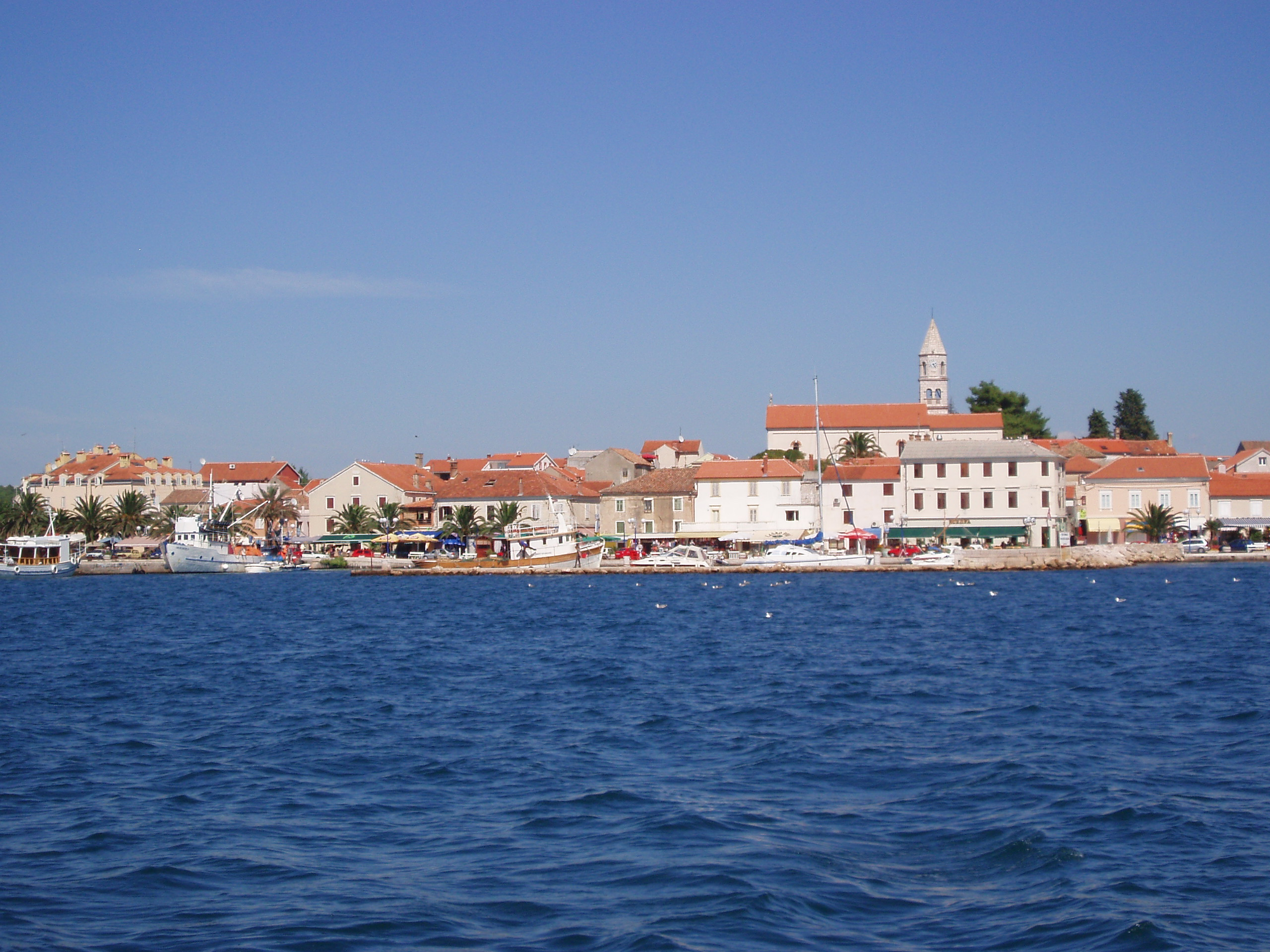 Biograd na Moru - picture took from the sailing yacht